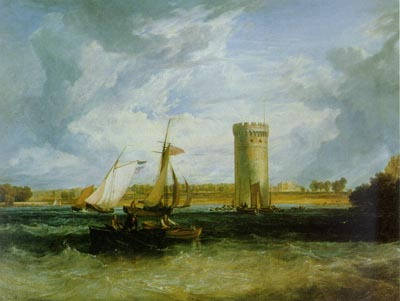 Boat on Tabley Mere, showing the folly tower and, in the distance, Tabley House